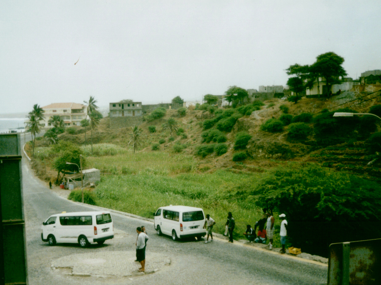 Irrigated land near Pedra Badejo, Cape Verde